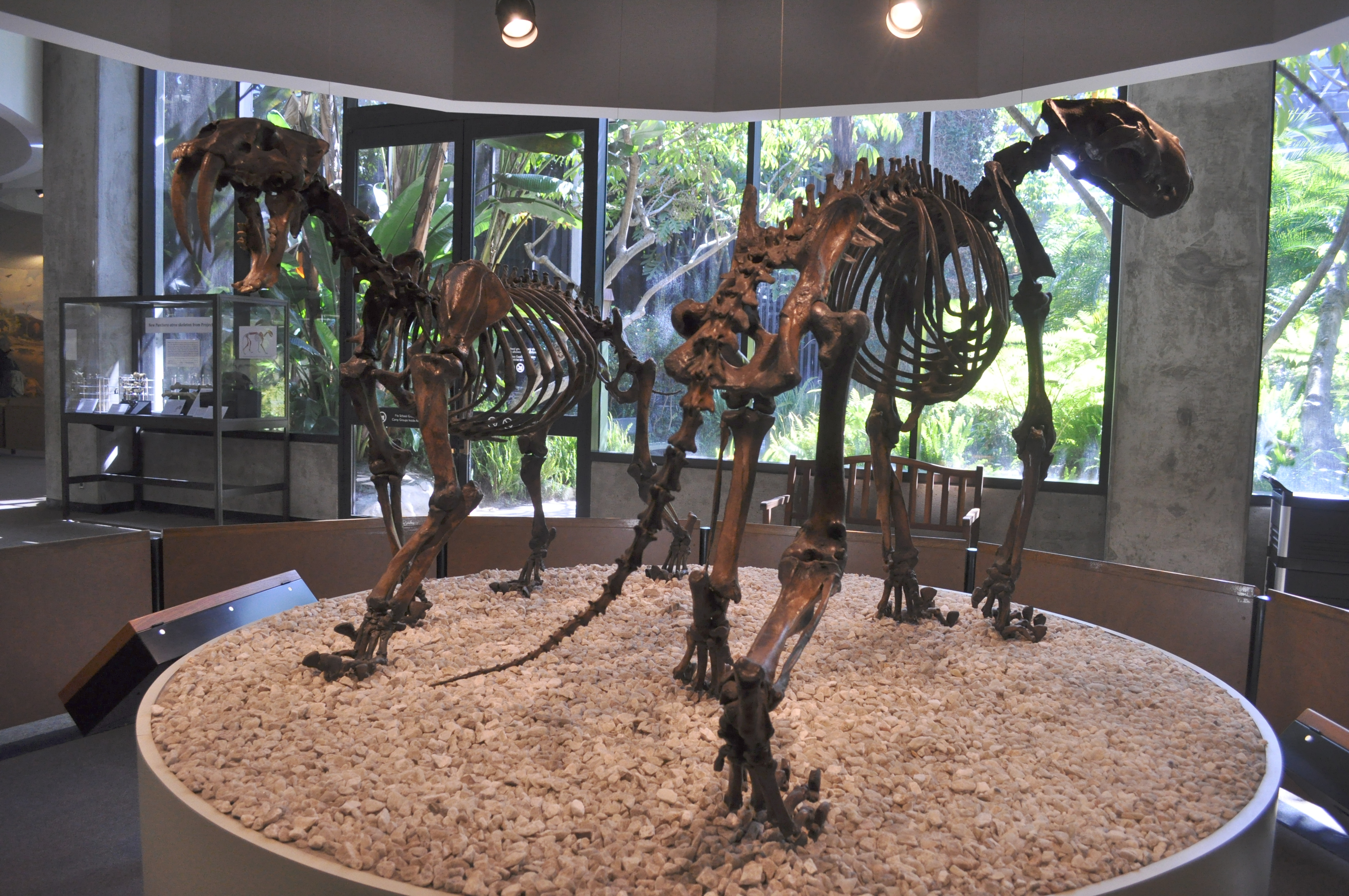 Skeletons of the extinct California Sabre-tooth (left, Smilodon californicus) & American Lion (right, Felix atrox or Panthera leo atrox), George C. Page Museum at the La Brea Tar Pits, Los Angeles, California.